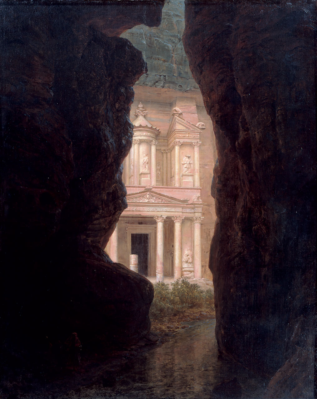 El Khasne Petra